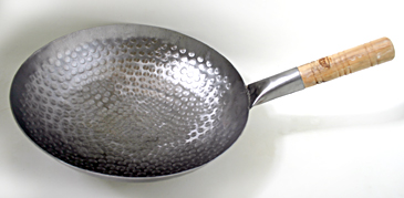 A hand hammered wok